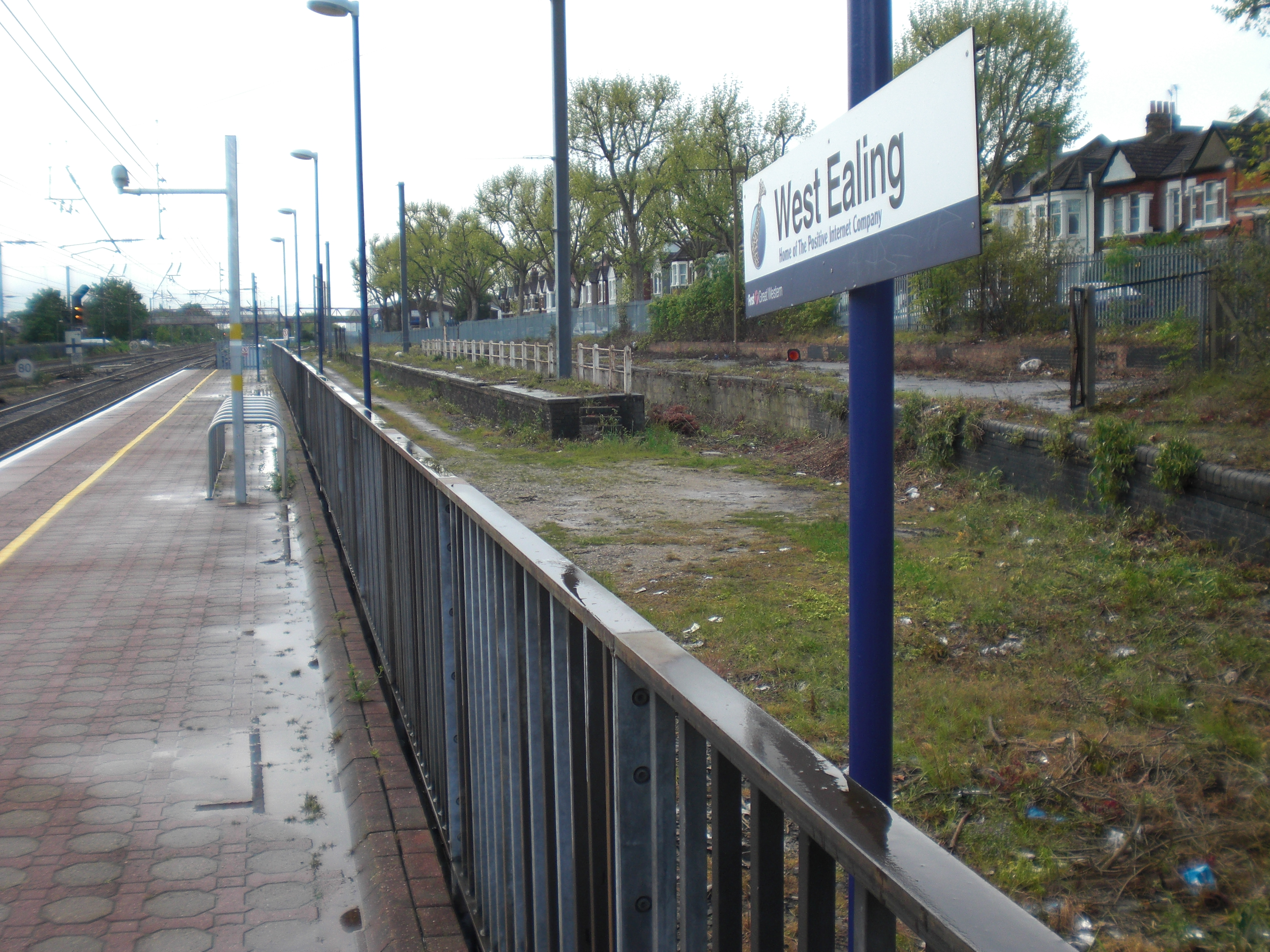 The area of the former milk train bay in May 2012 - this will be converted into an extra bay platform for the Greenford branch, as part of the Crossrail project